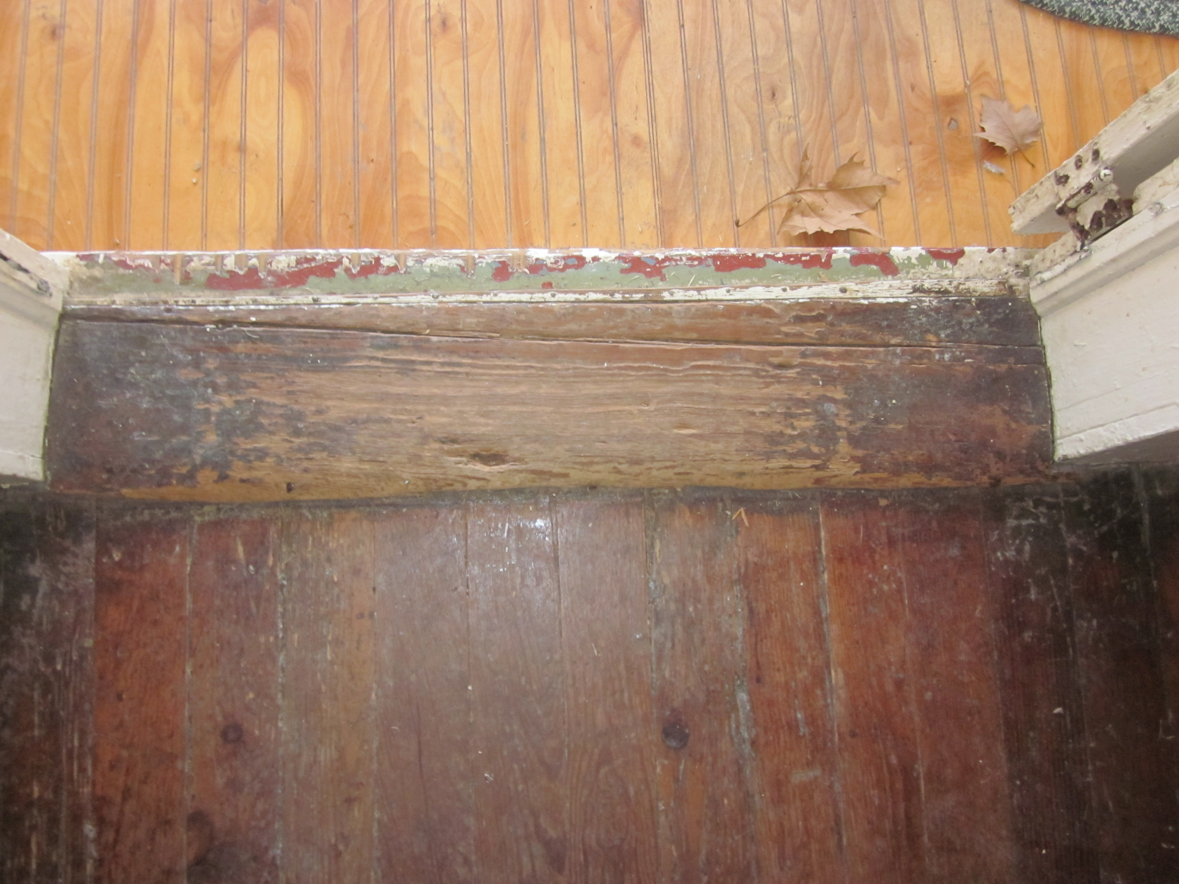 Spanish Colonial era house from 1780s, Nine Mile Point, Jefferson Parish, Louisiana. Interior; bedroom on inland (Pavo Street) side of house. Door sill.